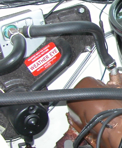 Weather Eye heater a 1967 AMC Marlin (manufactured by American Motors Corporation)